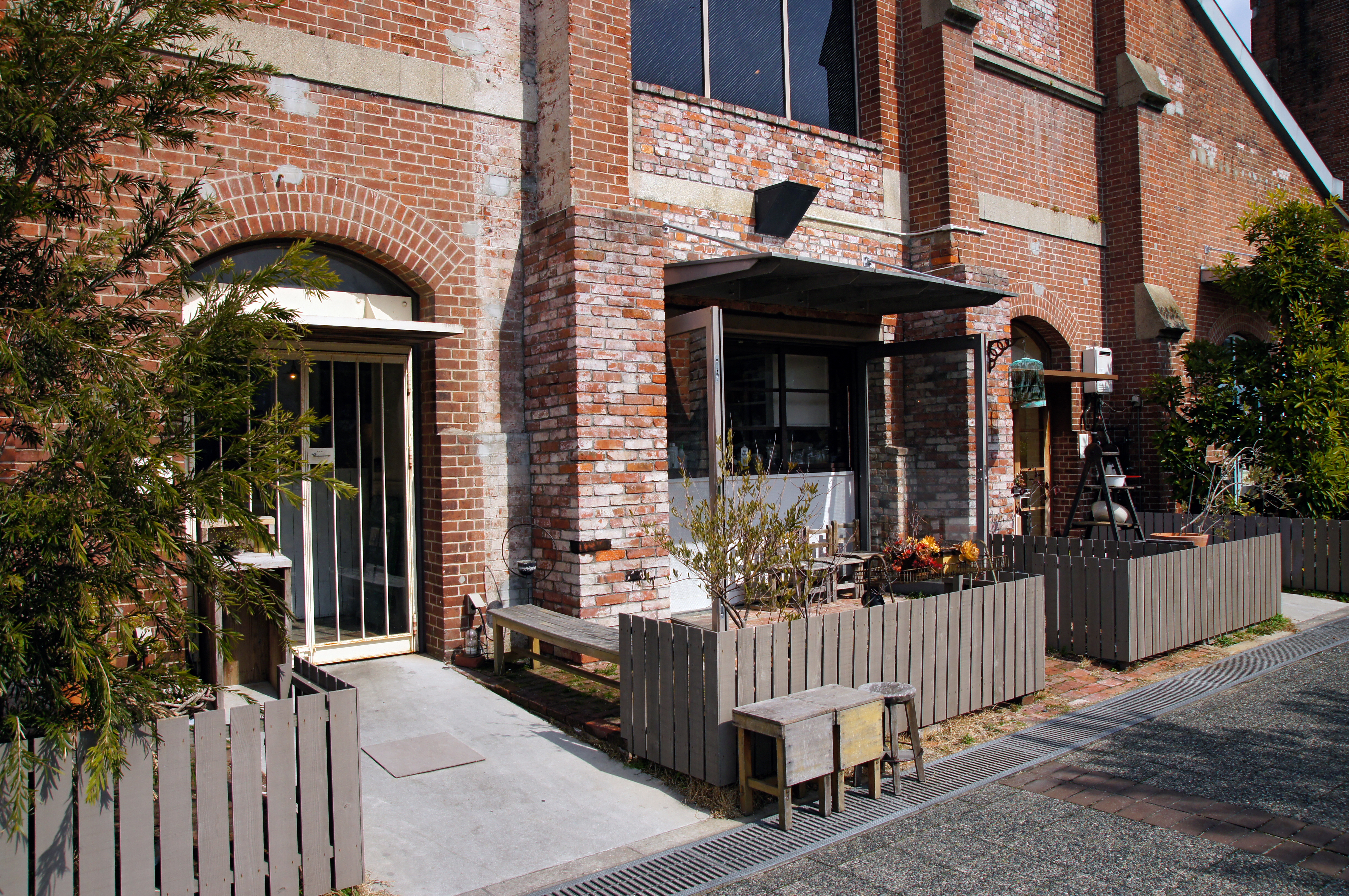 Sumoto_Artisan_Square in Sumoto, Hyogo prefecture, Japan.